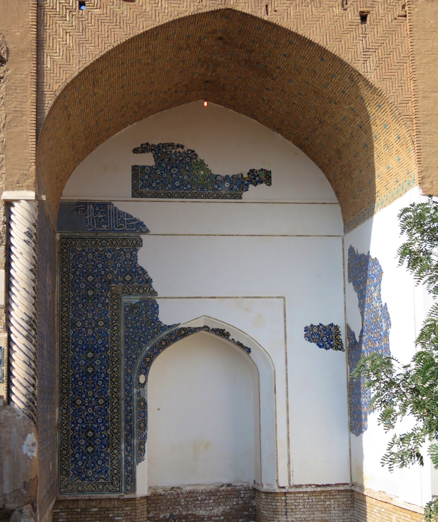 Green dome